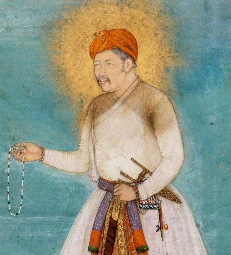 Akbar of India